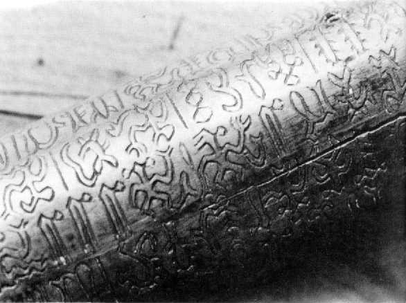 One of 26 rongorongo tablets that may be authentic.